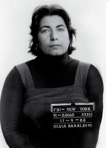 Mugshot of Silvia Baraldini